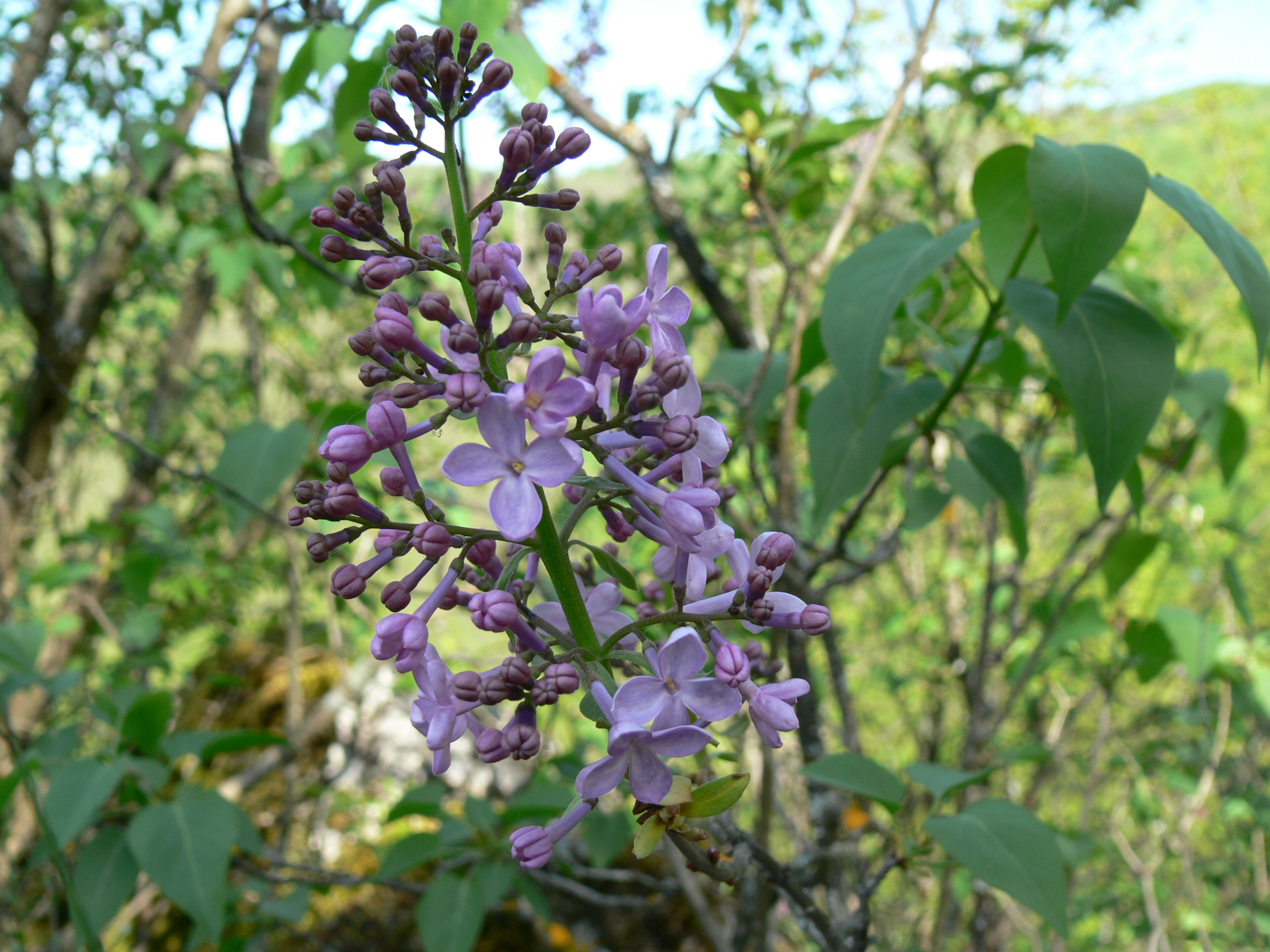 Natural Syringa vulgaris in flower, Bulgaria